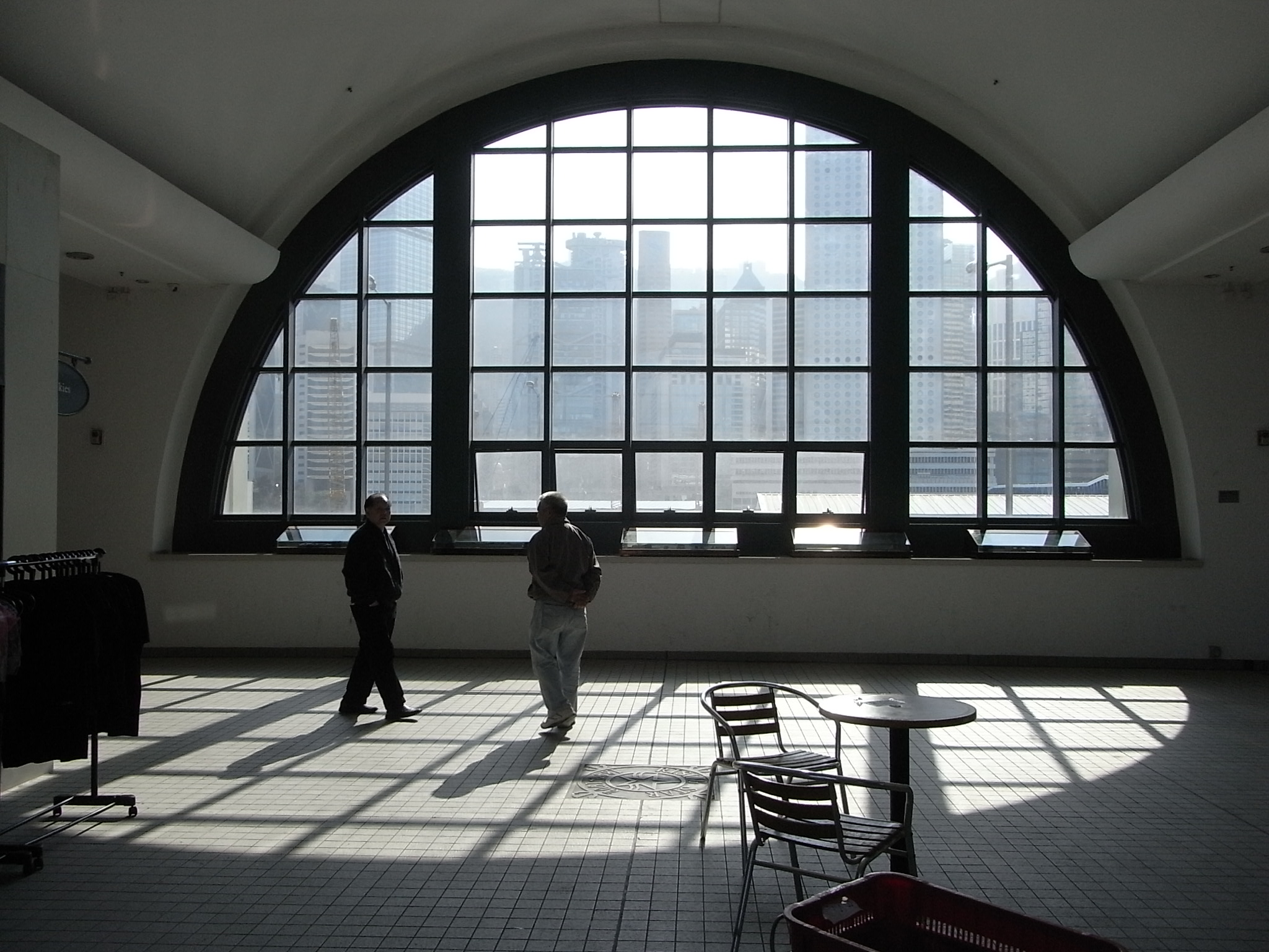 中環碼頭鐘樓內部